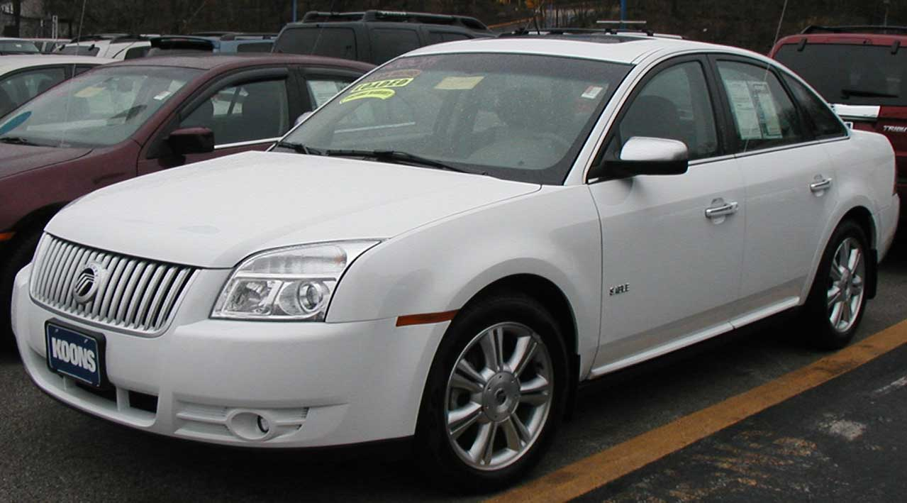 2008 Mercury Sable photographed in College Park, Maryland, USA.